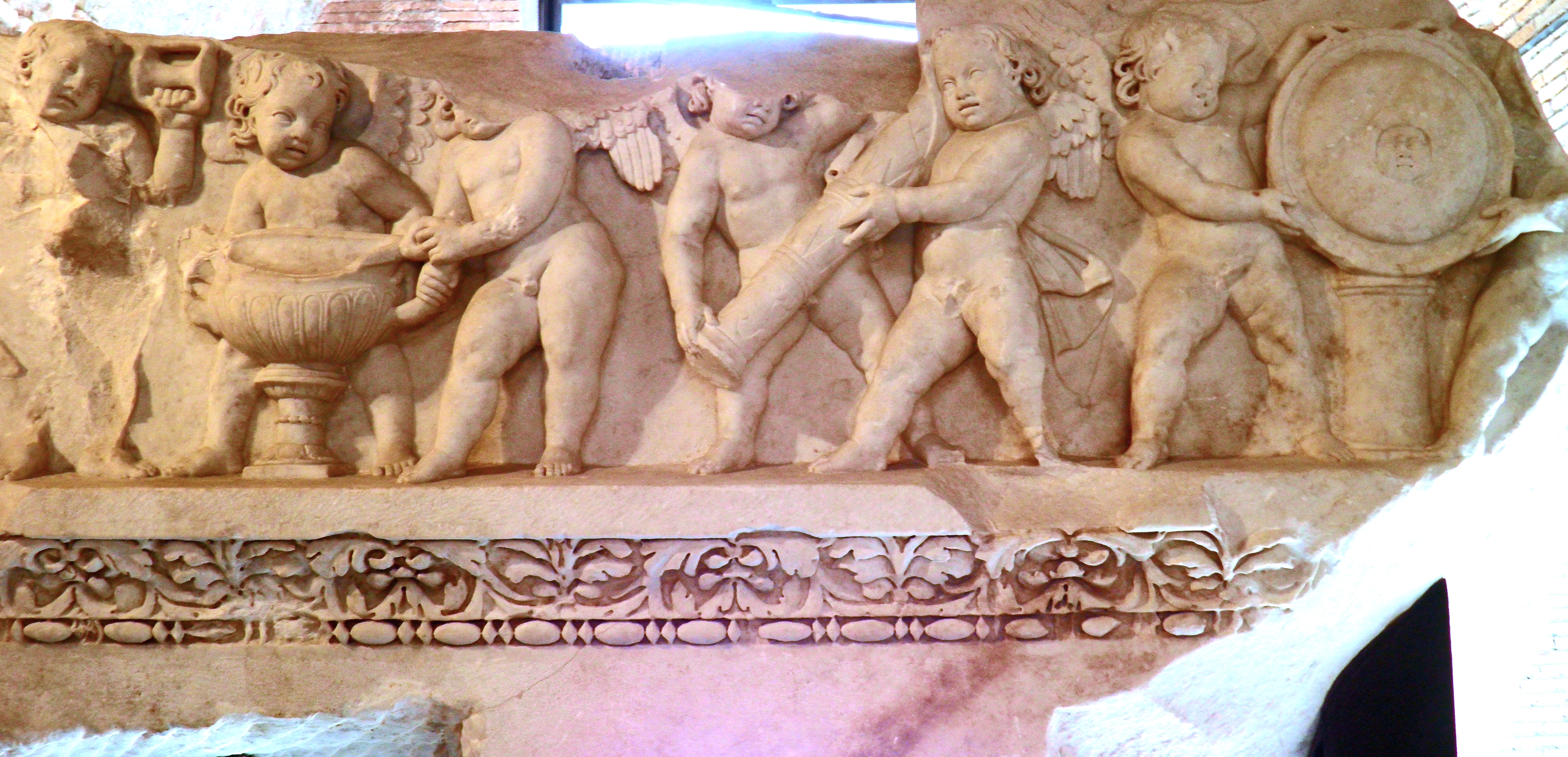 Frieze-archivatre representing Cupids, from the first order of the cell's internal decoration from the Temple of Venus Genetrix in the Forum of Caesar, Trajanic age, 113 AD, Museo dei Fori Imperiali, Rome